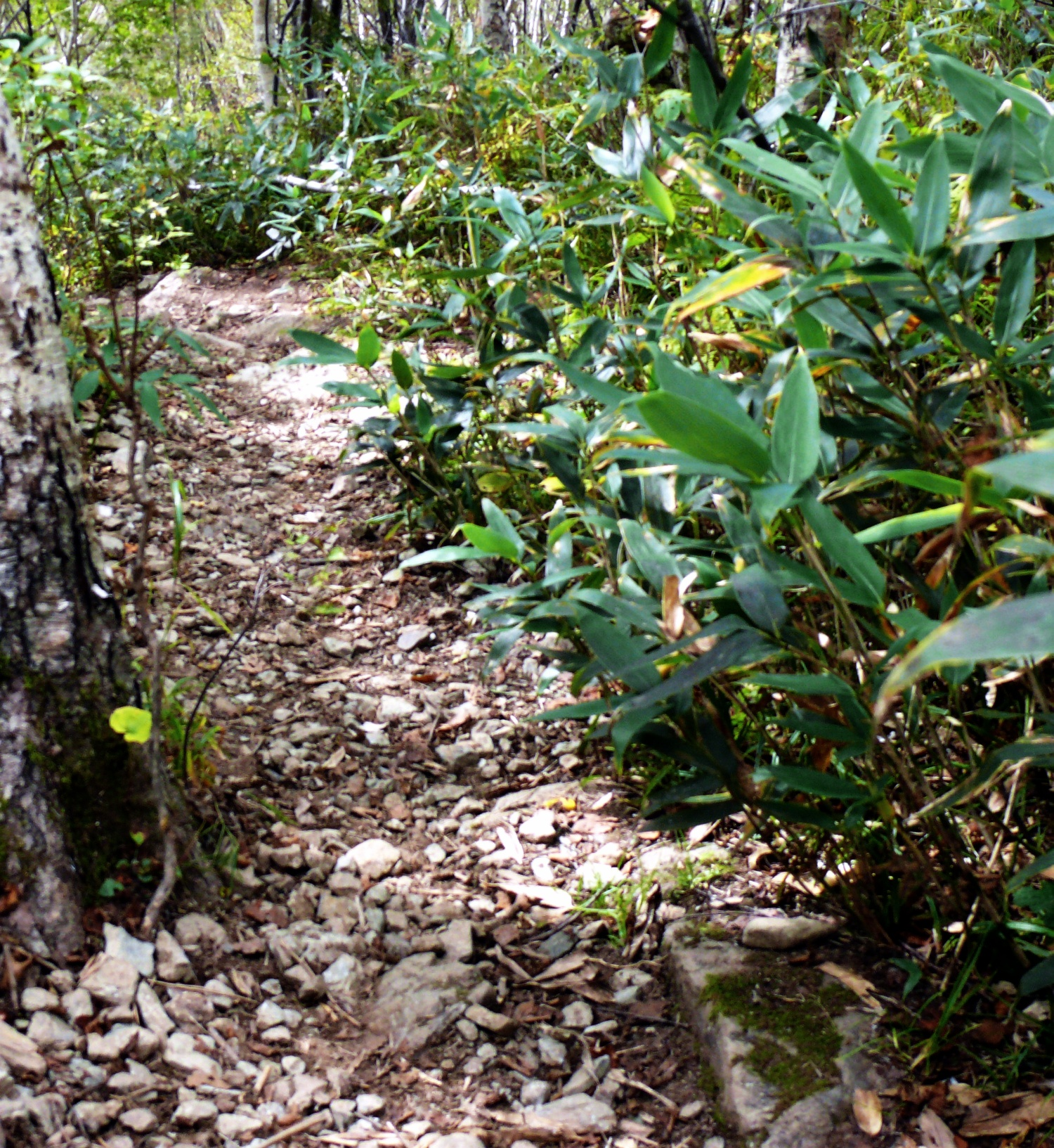 Sasa kurilensis — Kurile bamboo. In, and endemic to, Sakhalin Oblast, of the Far Eastern Federal District of Russia. The most northern-growing bamboo in the world.